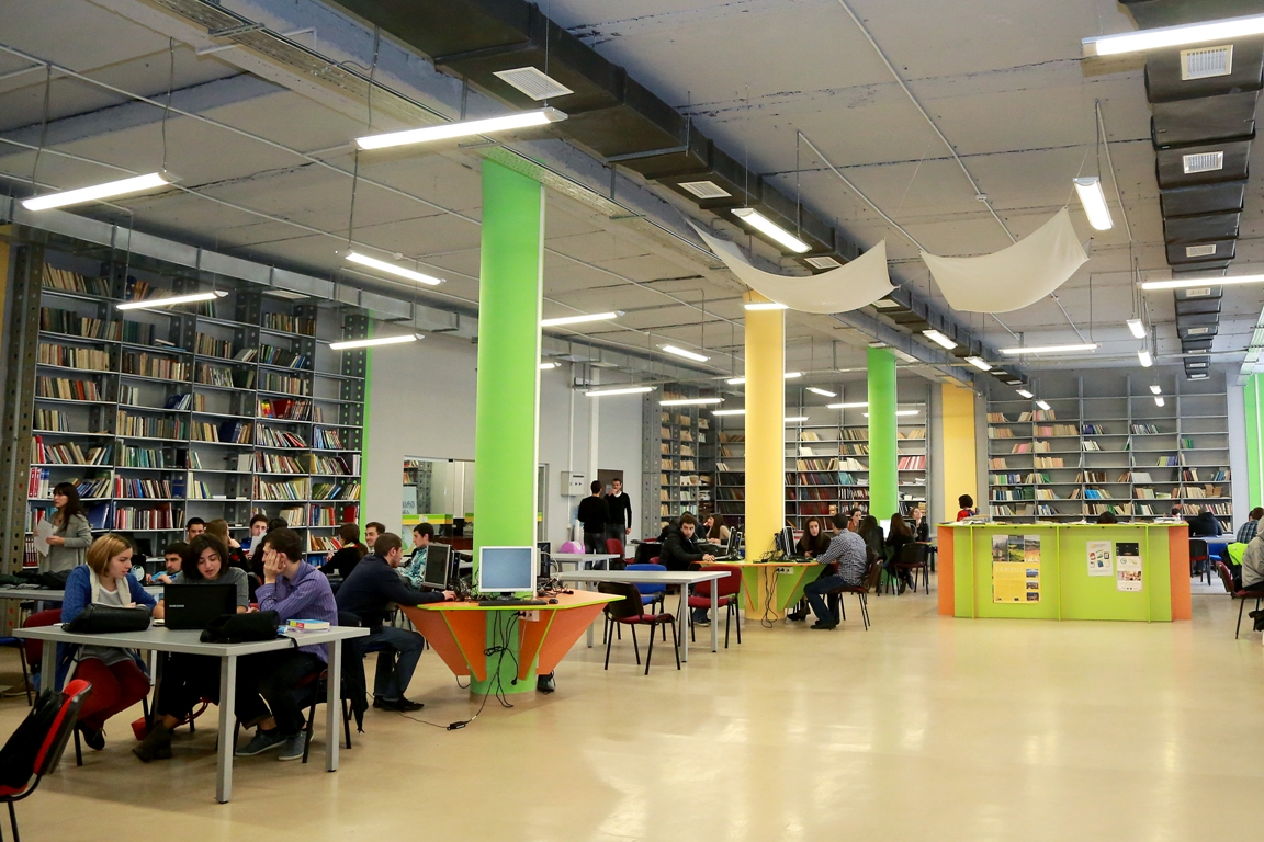 The inside view of the Library of Free University of Tbilisi